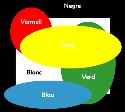 Elipses de colors bàsics